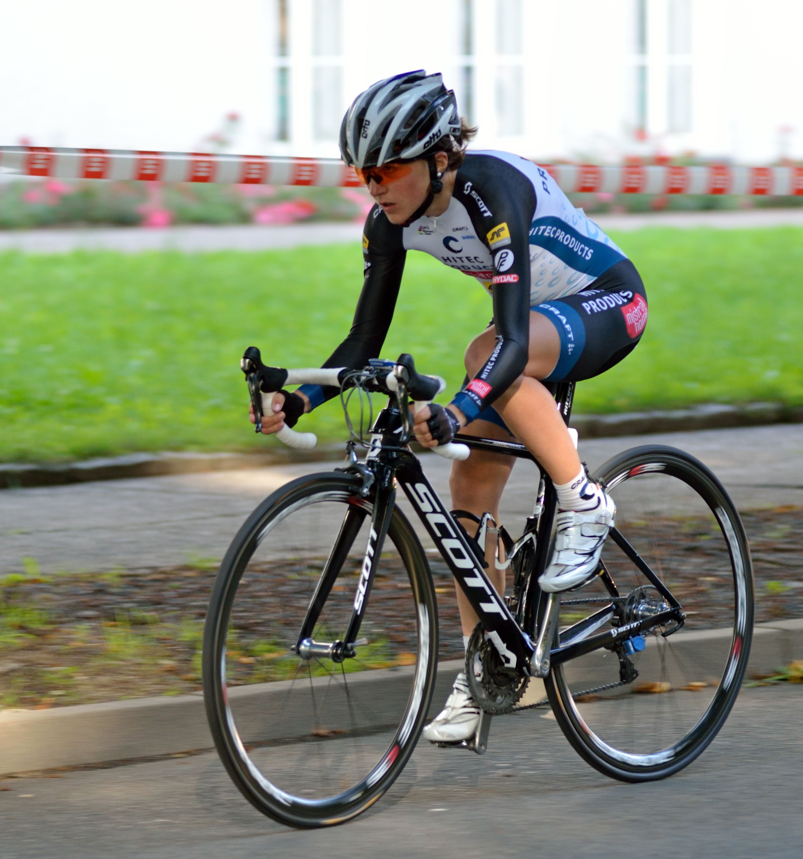 Sylwia Kapusta from the Hitec Products-Mistral Home Cycling Team during the Women's Tour of Thuringia 2012 in Zwickau, Germany.